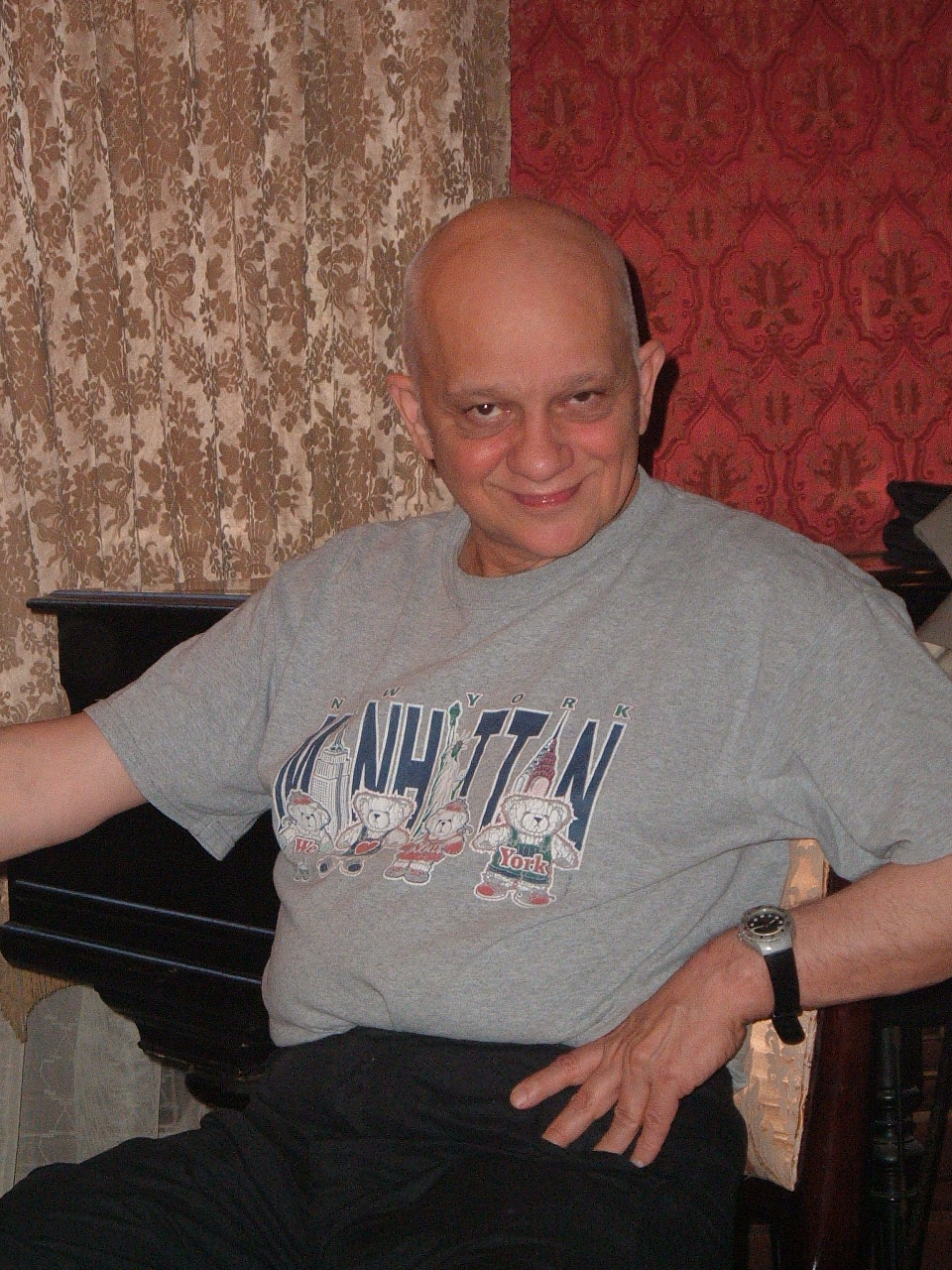 The portrait of the Romanian playwright Puși Dinulescu, 2006